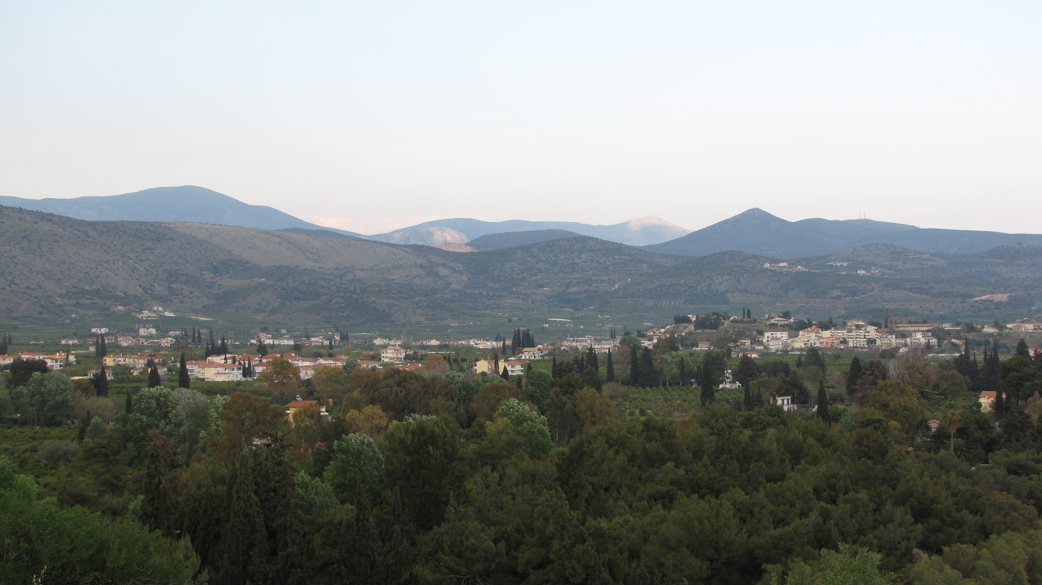 Kallithéa and Drepano villages in the municipality of Asini, Greece.